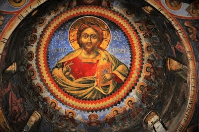 Panagia Bounasia Fresco 1850